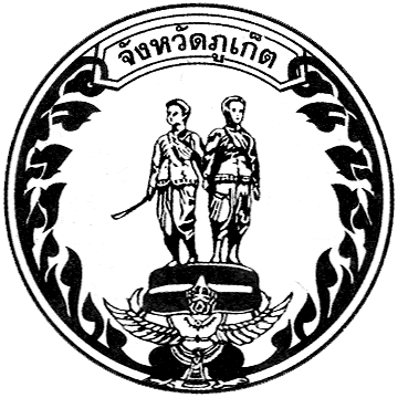 Provincial seal of Phuket province.